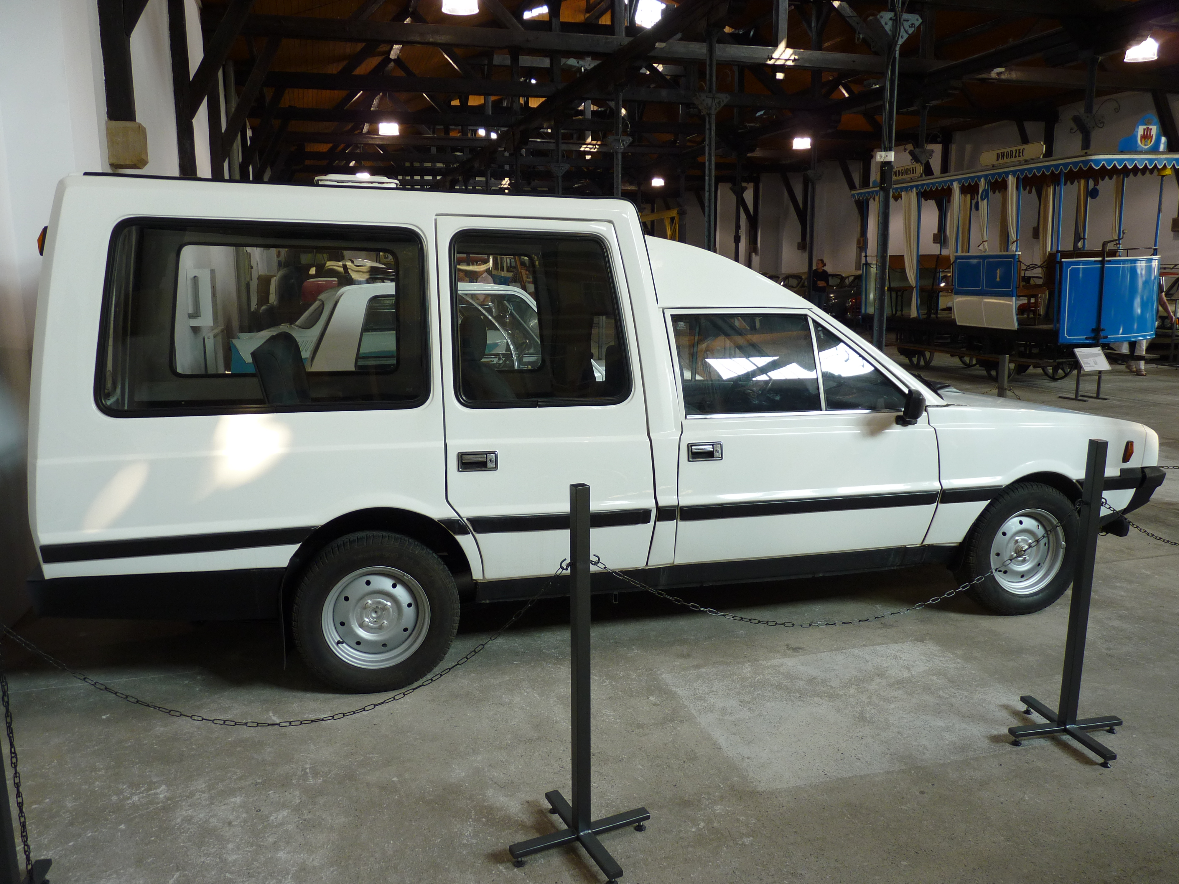 Classic Moto Show 2014 in Kraków.